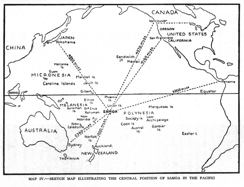 Sketch map illustrating the central position of Samoa in the Pacific.